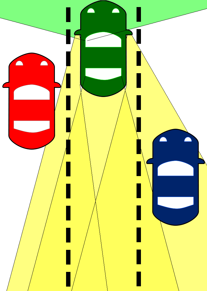 Car taken from Wikimedia Commons, made into diagram.